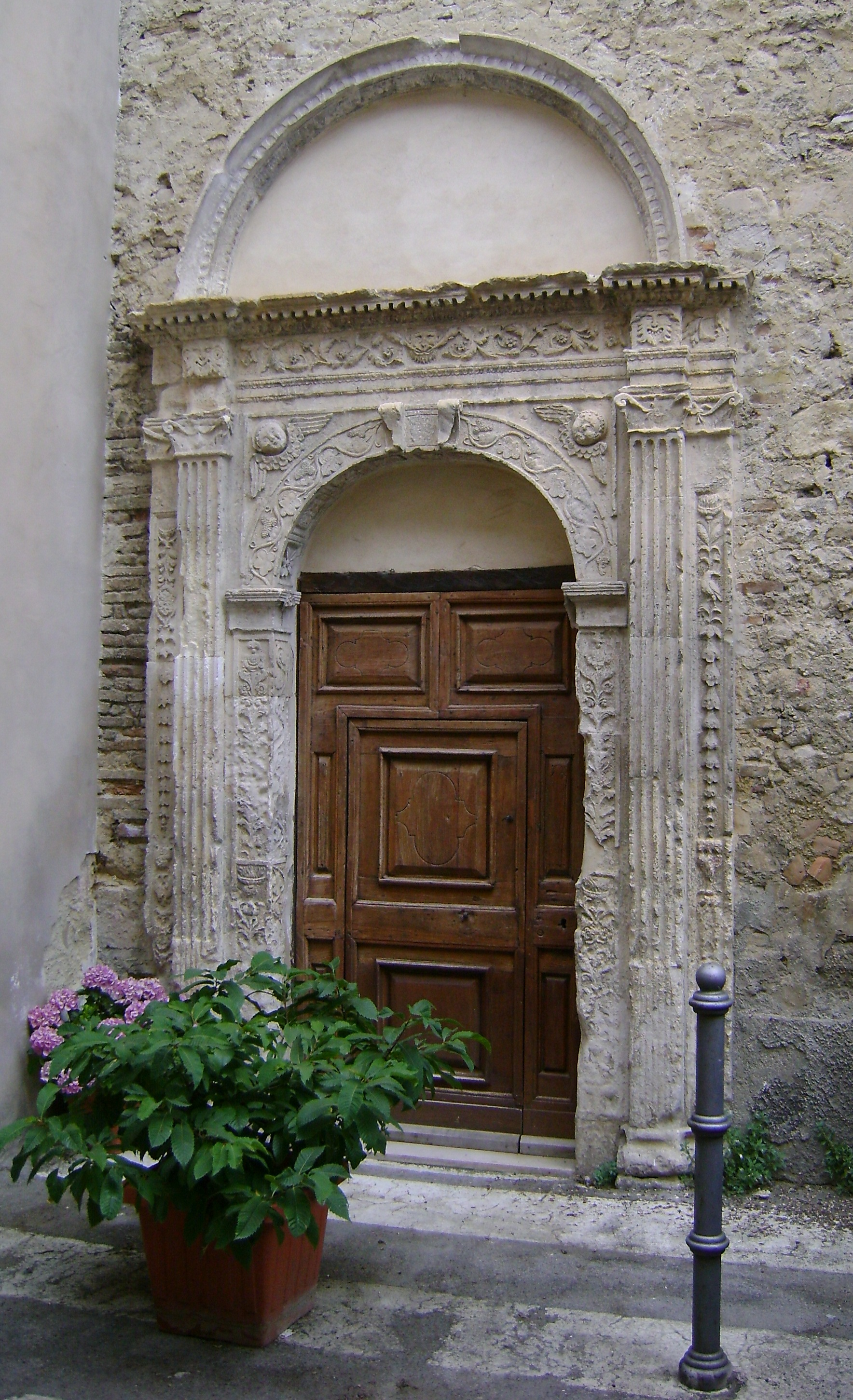 The portal of the church of San Nicola in Guardiagrele in the province of Chieti, Abruzzo